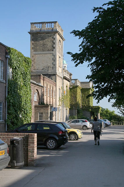 Brackenhurst Hall The tower and west front. This is now the heart of Brackenhurst College, the Agriculture Department of Nottingham Trent University